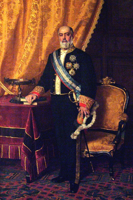 Martín Belda y Mencía del Barrio (1820-1882), Spanish politician in the nineteenth century. He was Navy minister (1863-1867), president of the Spanish Parliament, General representative of the queen Isabel II and Gobernor of the Banco de España- Spain Central Bank (1878-1881).